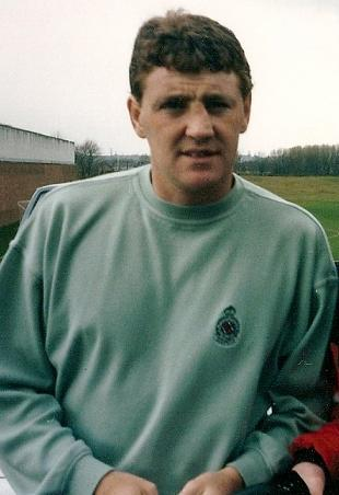 Steve Bruce, former Man. United player, picture taken at The Cliff training ground.